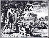 Michel Cabieu fighting the British Army